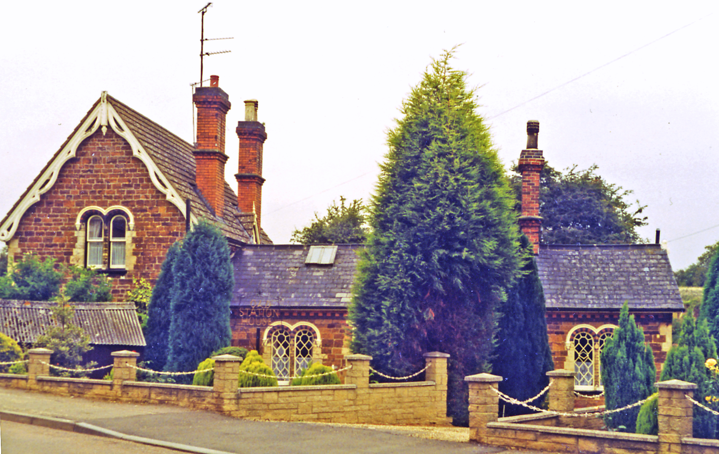 Former Desborough & Rothwell station View northward, the railway line being the other side of the buildings: ex-Midland Main Line, London St Pancras - Leicester and the North. The station was clos